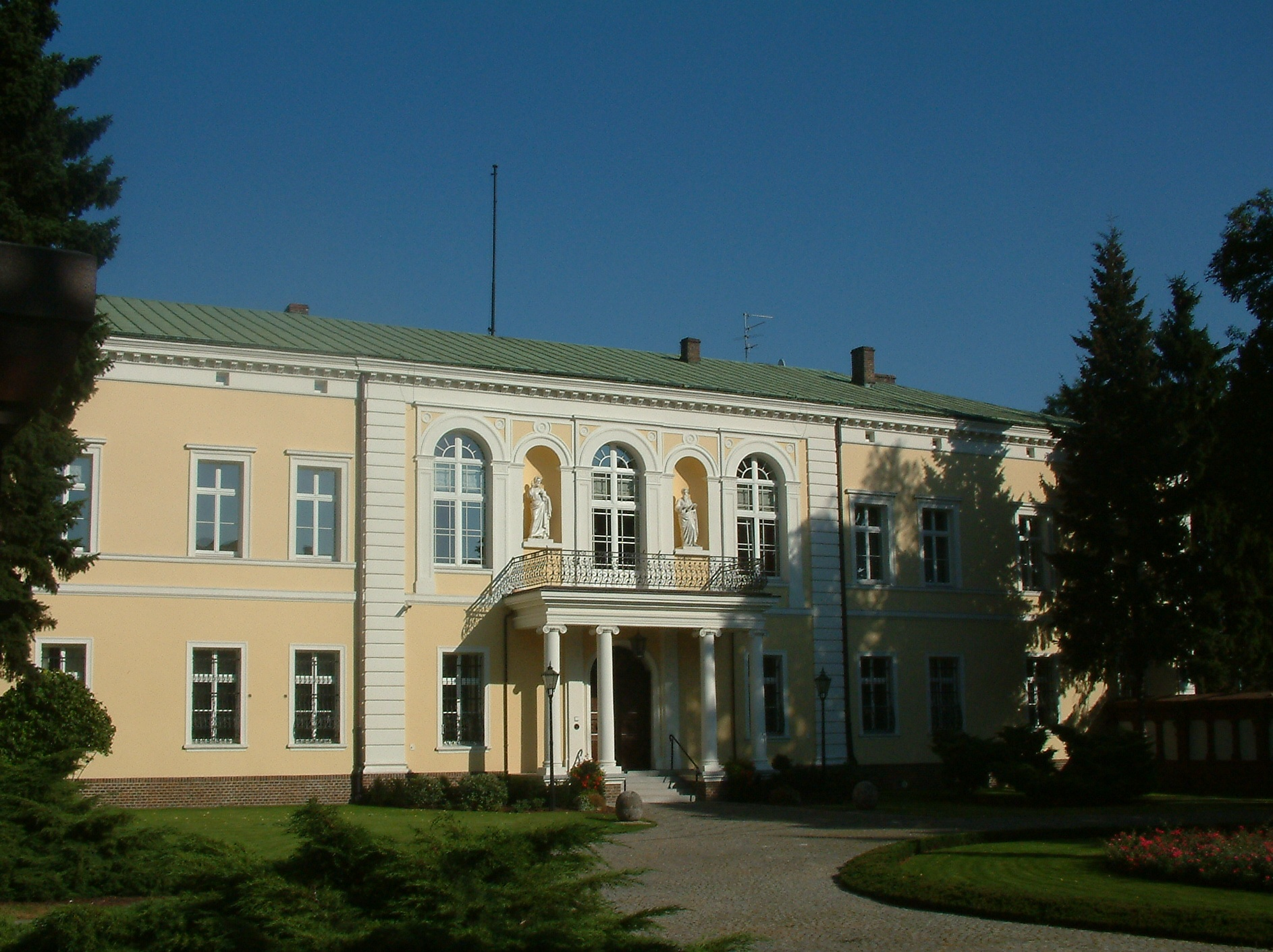 Archibishopric Palace in Poznań